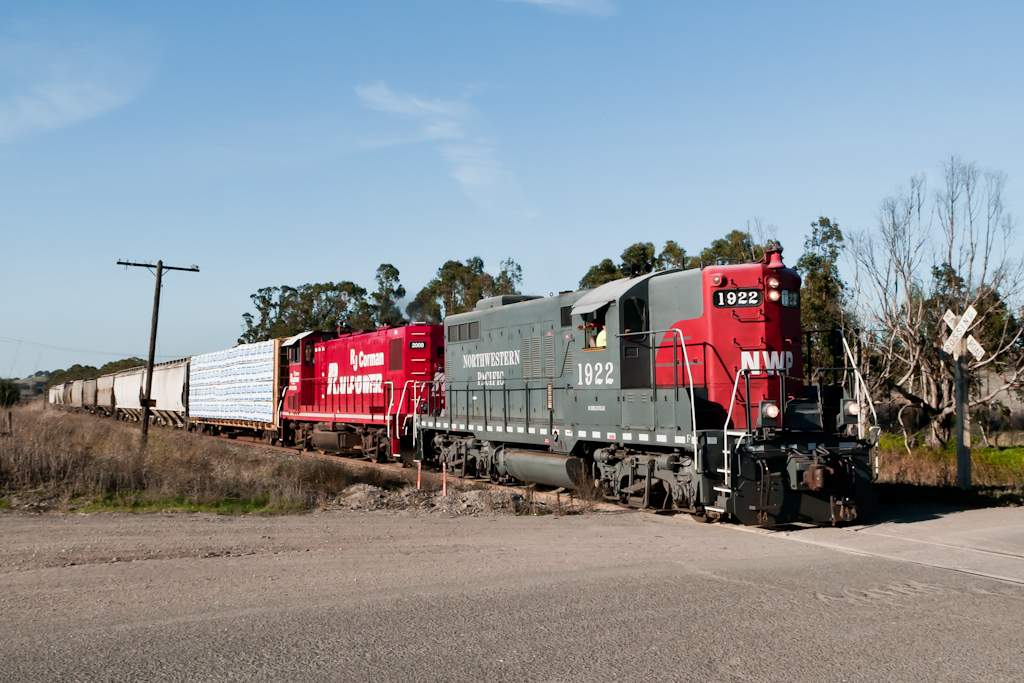 Northwestern Pacific Railroad #1922 built in 1957 taken October 21, 2011, at the Redwood Landfill crossing south of Petaluma, California.